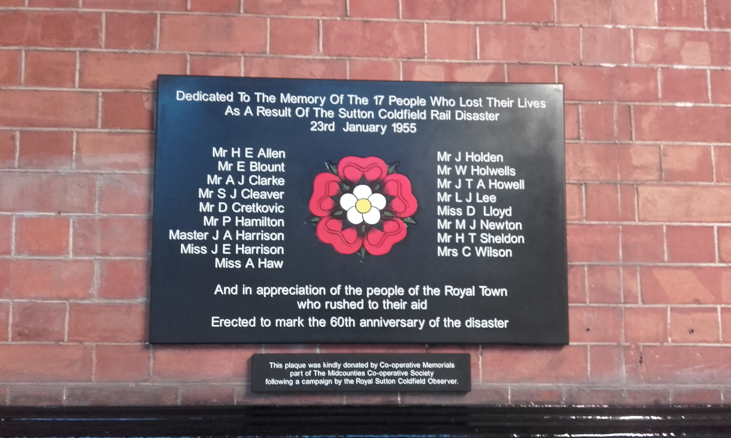 Memorial to the 17 people who were killed at the Sutton Coldfield rail crash of 23 January 1955